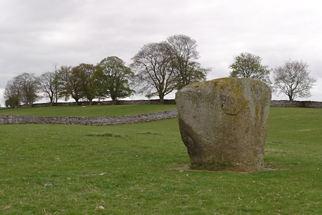 Goggleby Stone